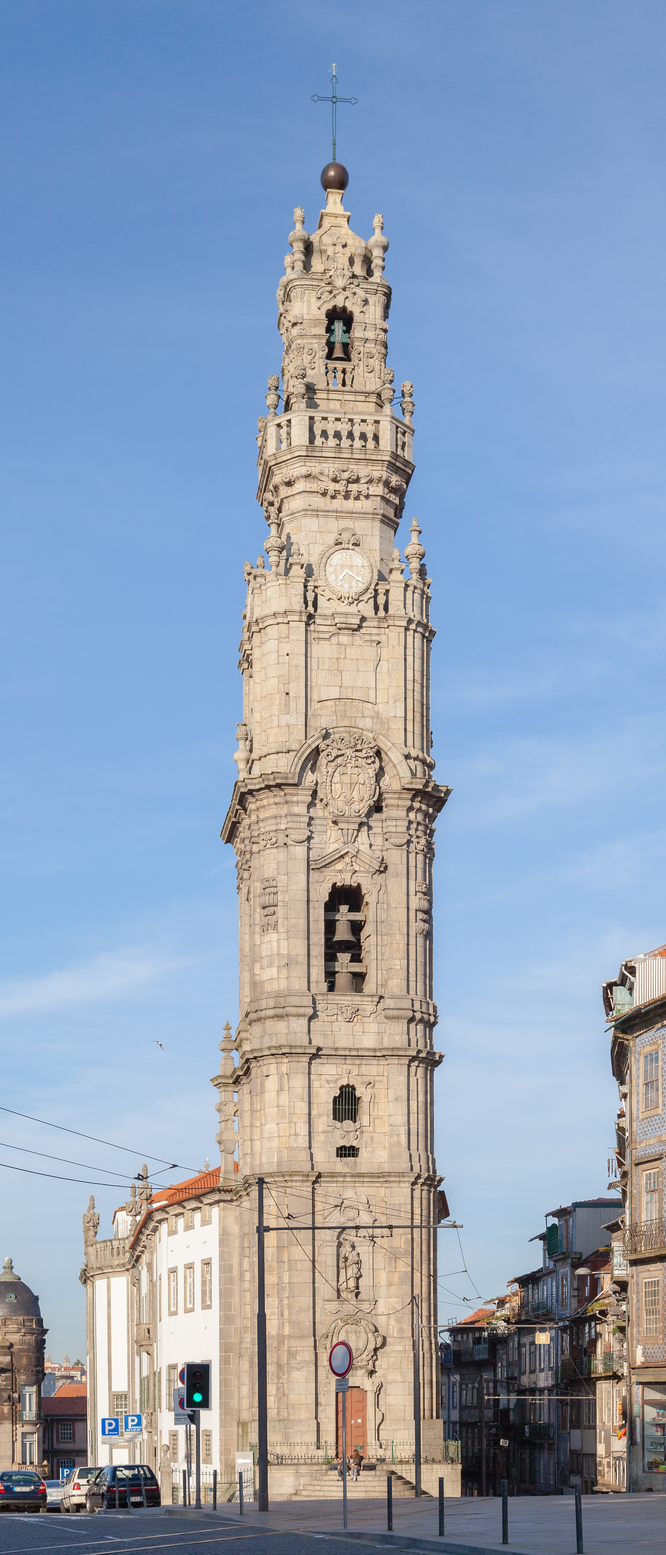 Clerics Tower, Porto, Portugal